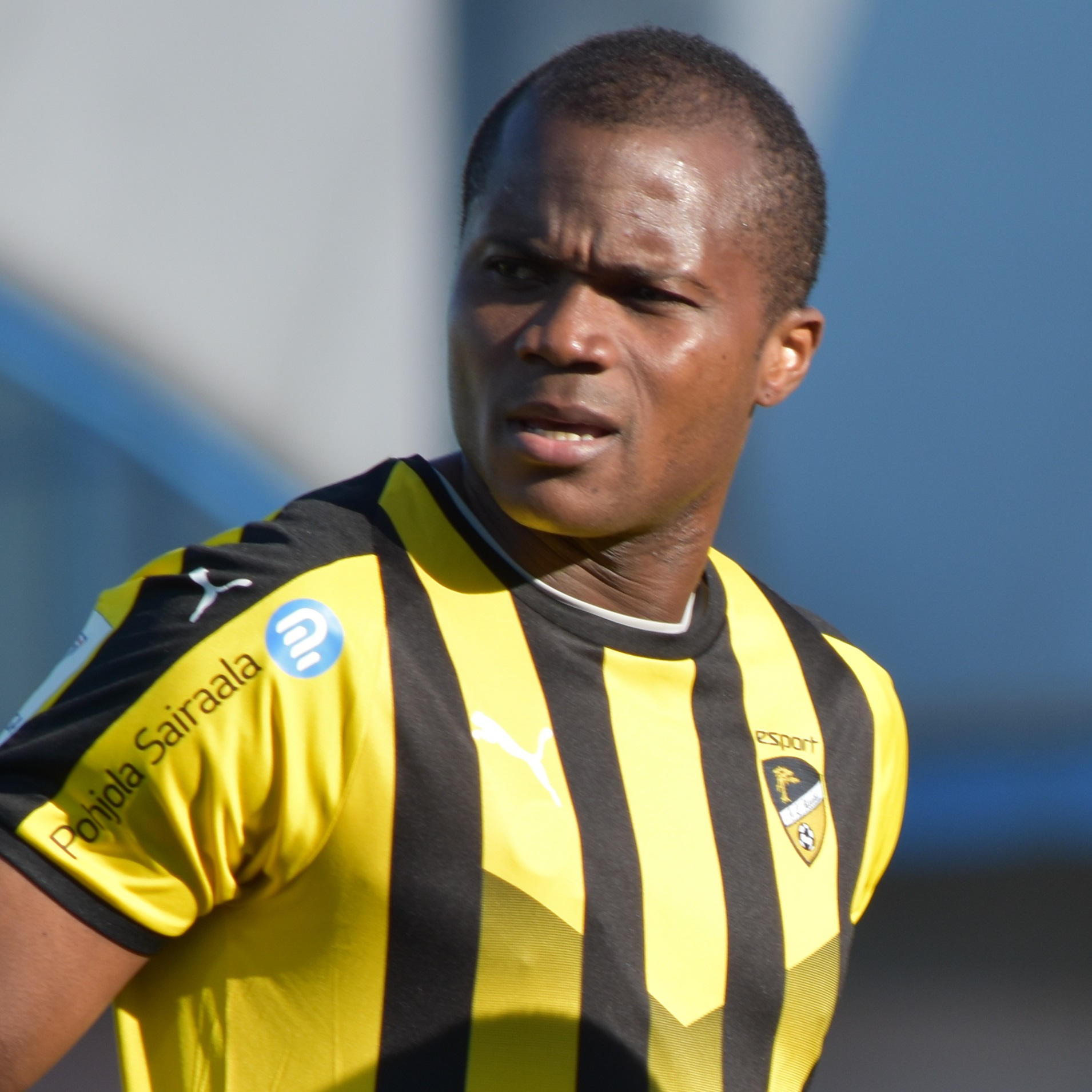 Assoaciation football player Alex Nimely (FC Honka)